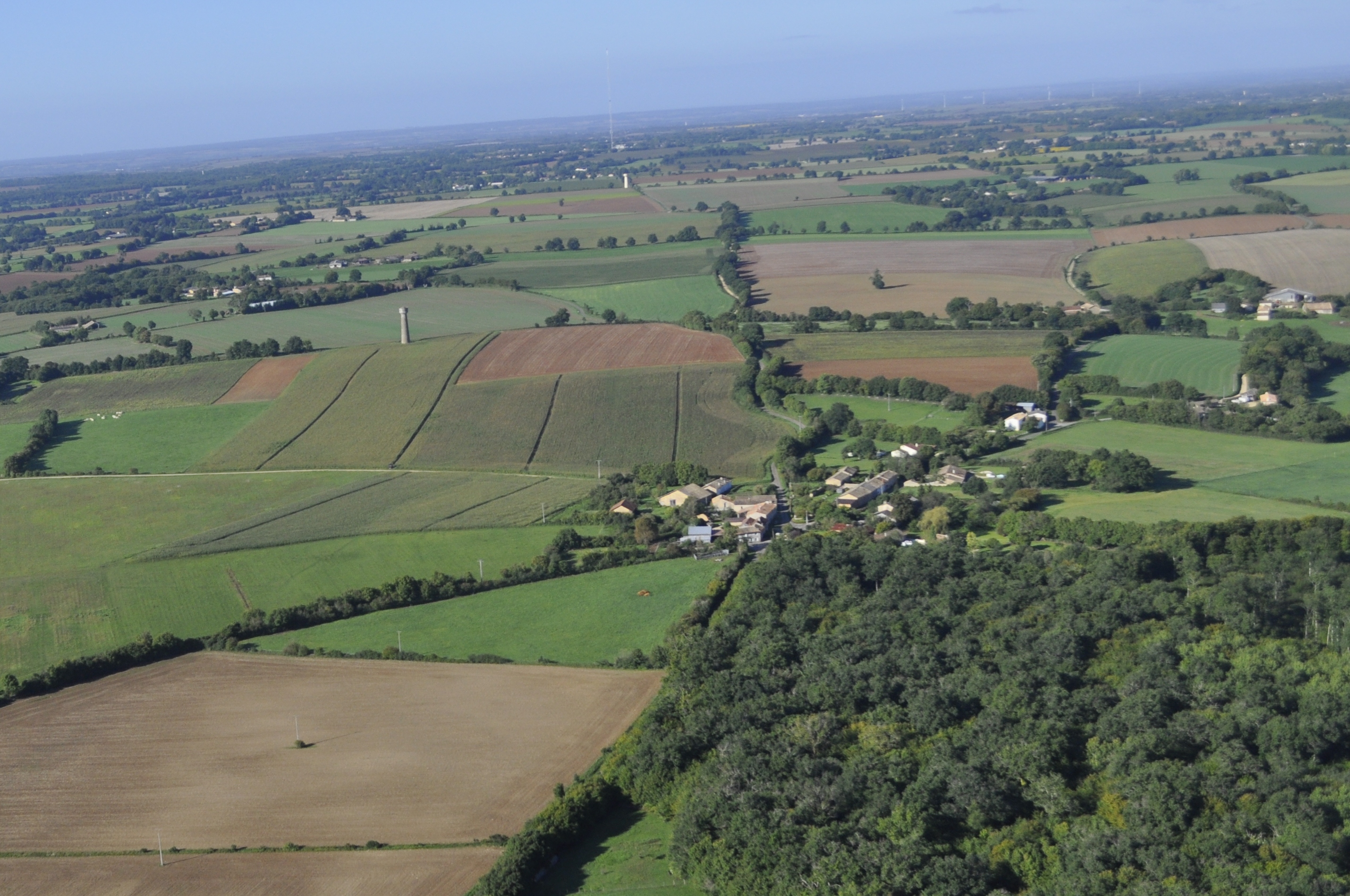 Crolour from the air